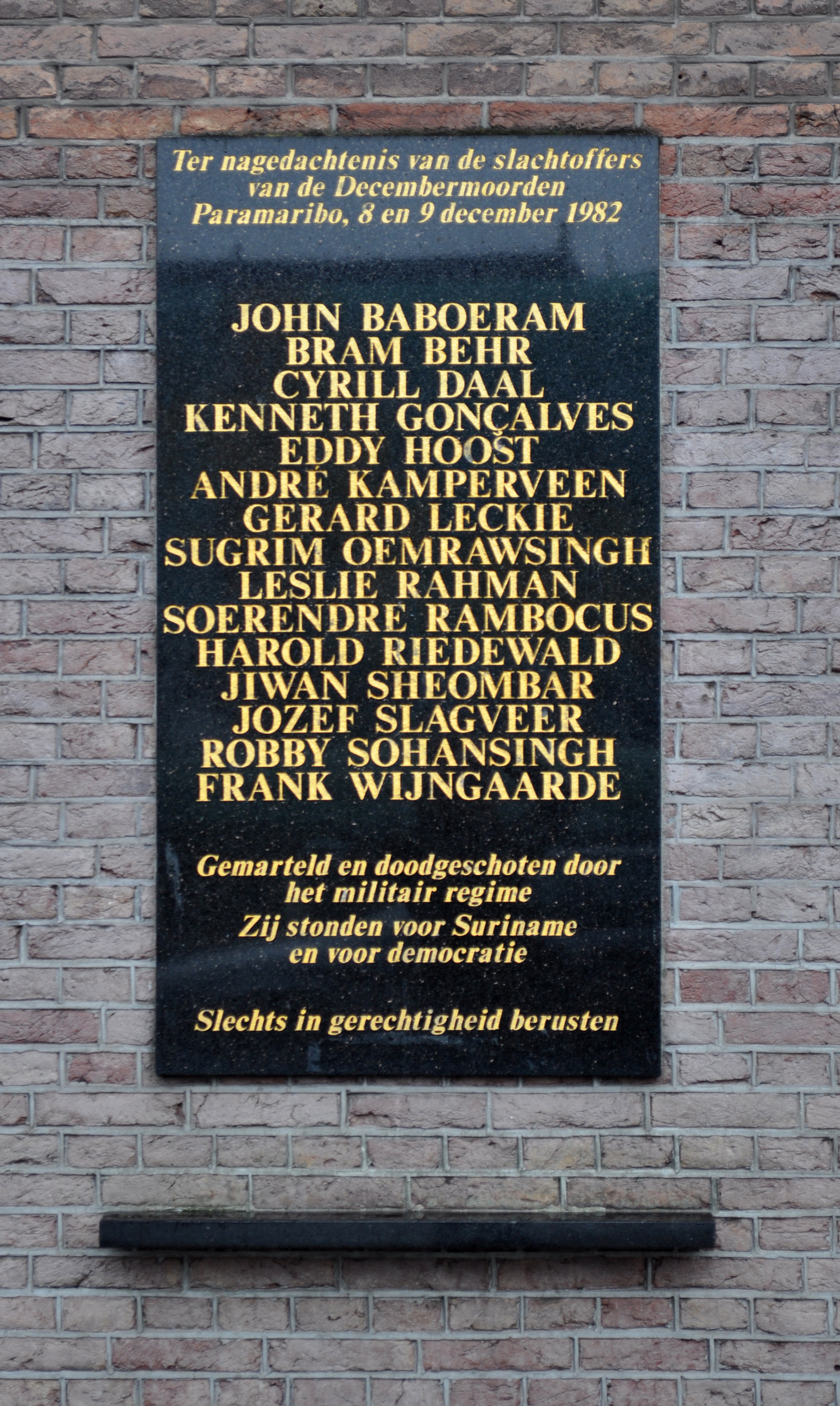 Monument for the December killings in Suriname. Placed against the sidewall (Mr. Visserplein) of the Mozes & Aaronchurch in Amsterdam.